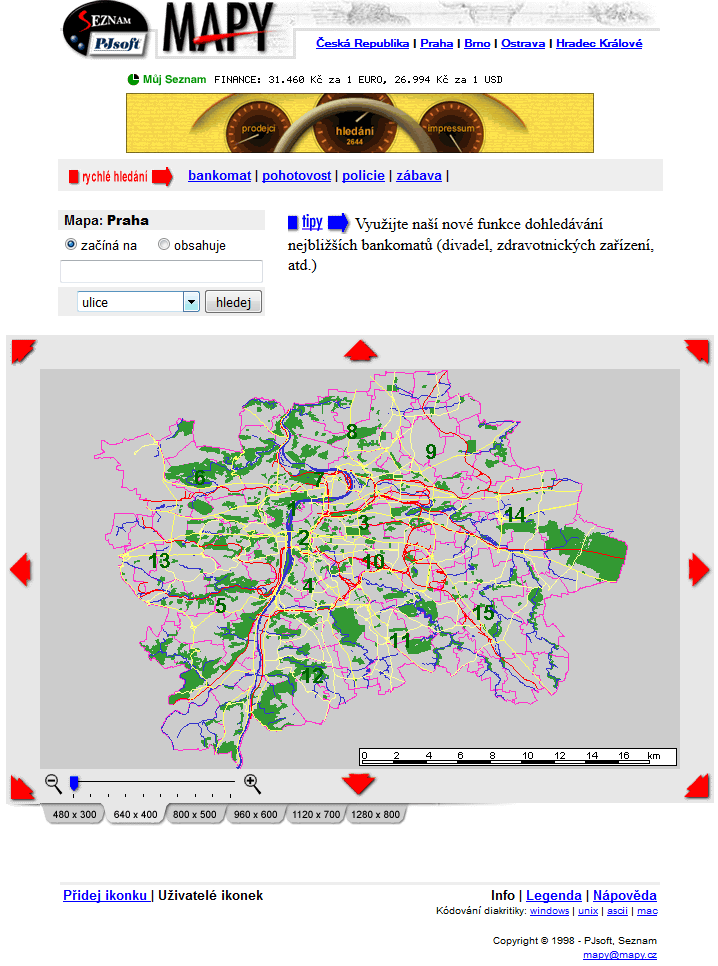 Mapy.cz in 1998 year.